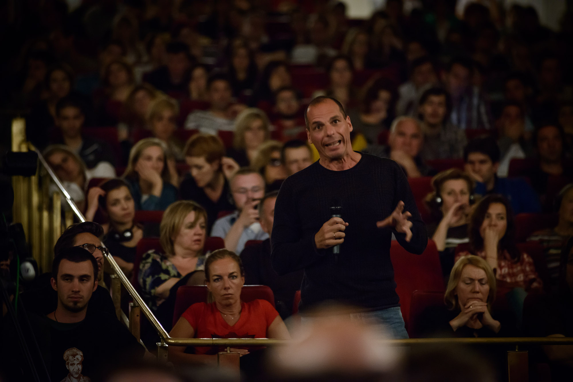 Yanis Varoufakis speaking on Subversive Festival 2013 in Zagreb.